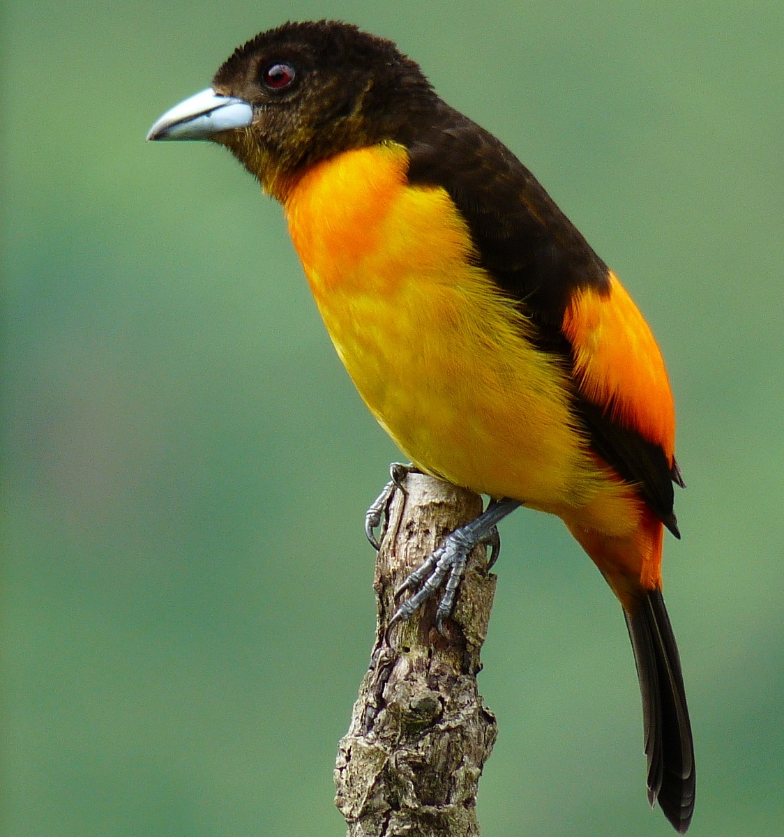 Flame-rumped tanager (Ramphocelus flammigerus) female. Taken at Aralcal, The Coffee Forest Manizales, Colombia.